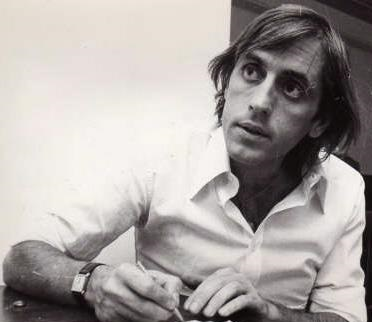 Nono Pugliese- actor argentino